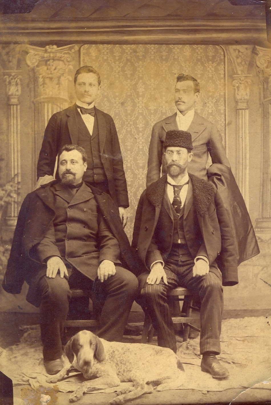 Bulgarian politician Nikola Mushanov (1872-1951), Stara Zagora, Bulgaria.